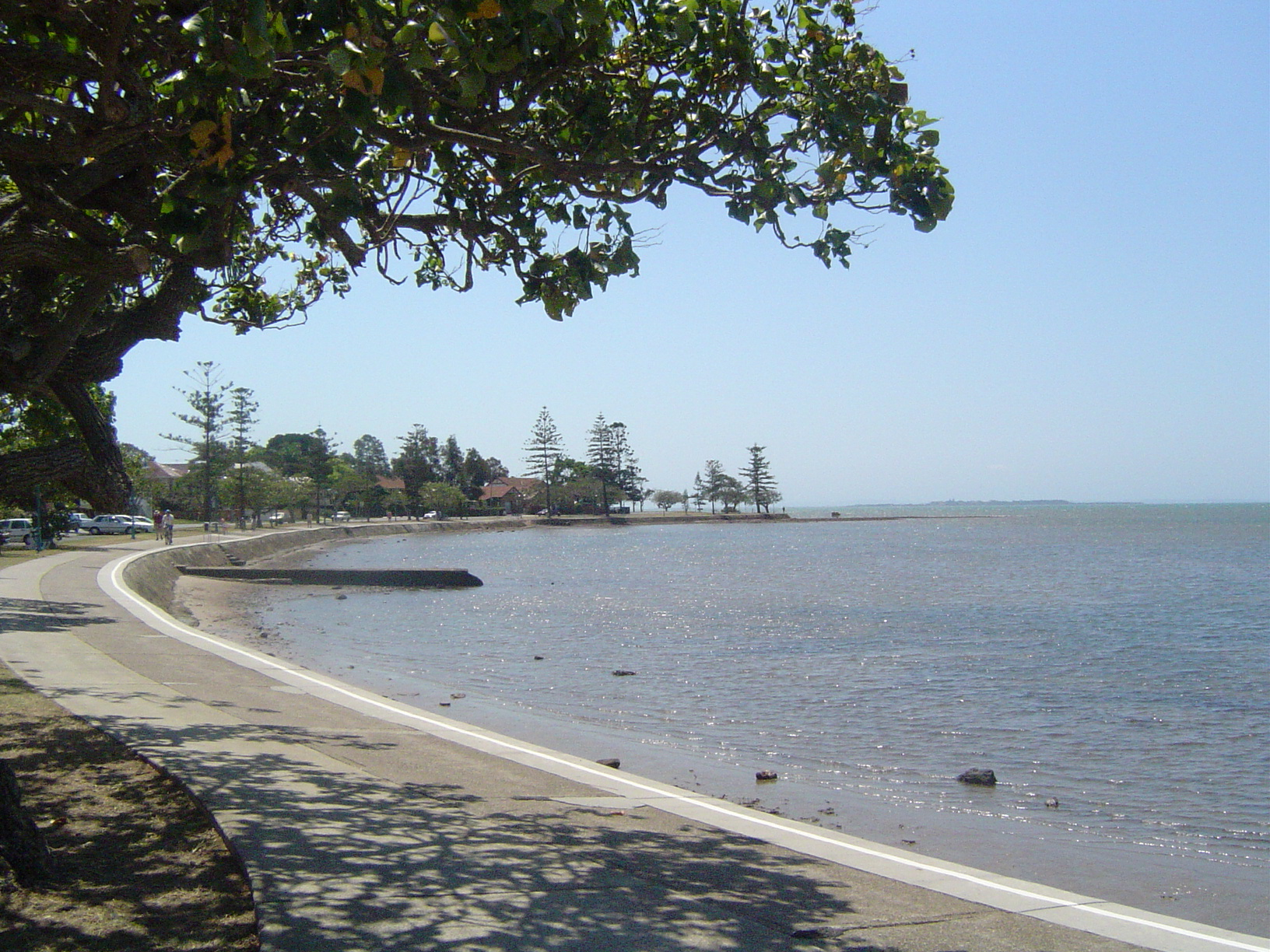 Photograph taken by Nick Carson in 2004.